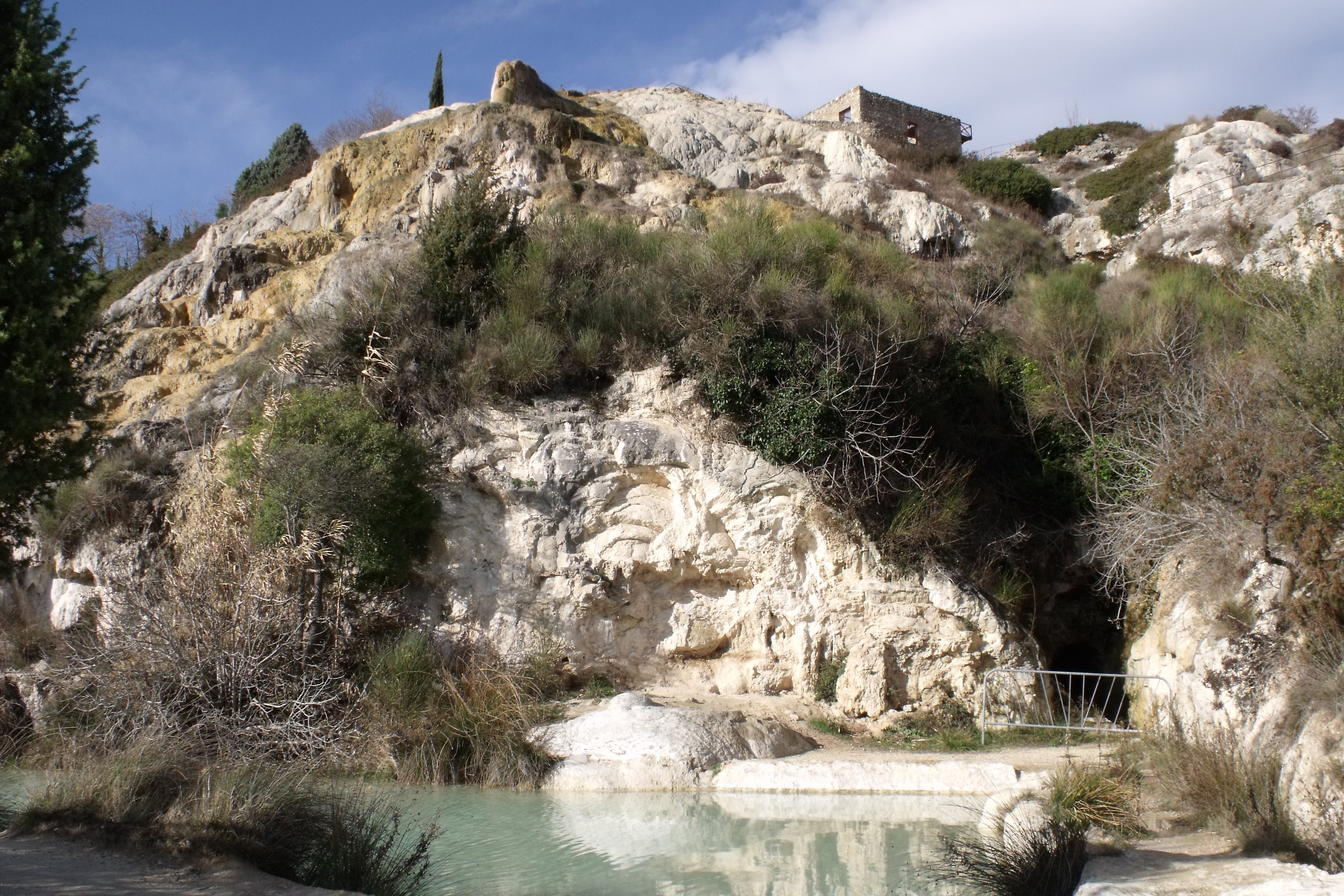 Bagno Vignoni, Caves and Thermal bath / hot springs in Bagno Vignoni, San Quirico d'Orcia, Province of Siena, Tuscany, Italy